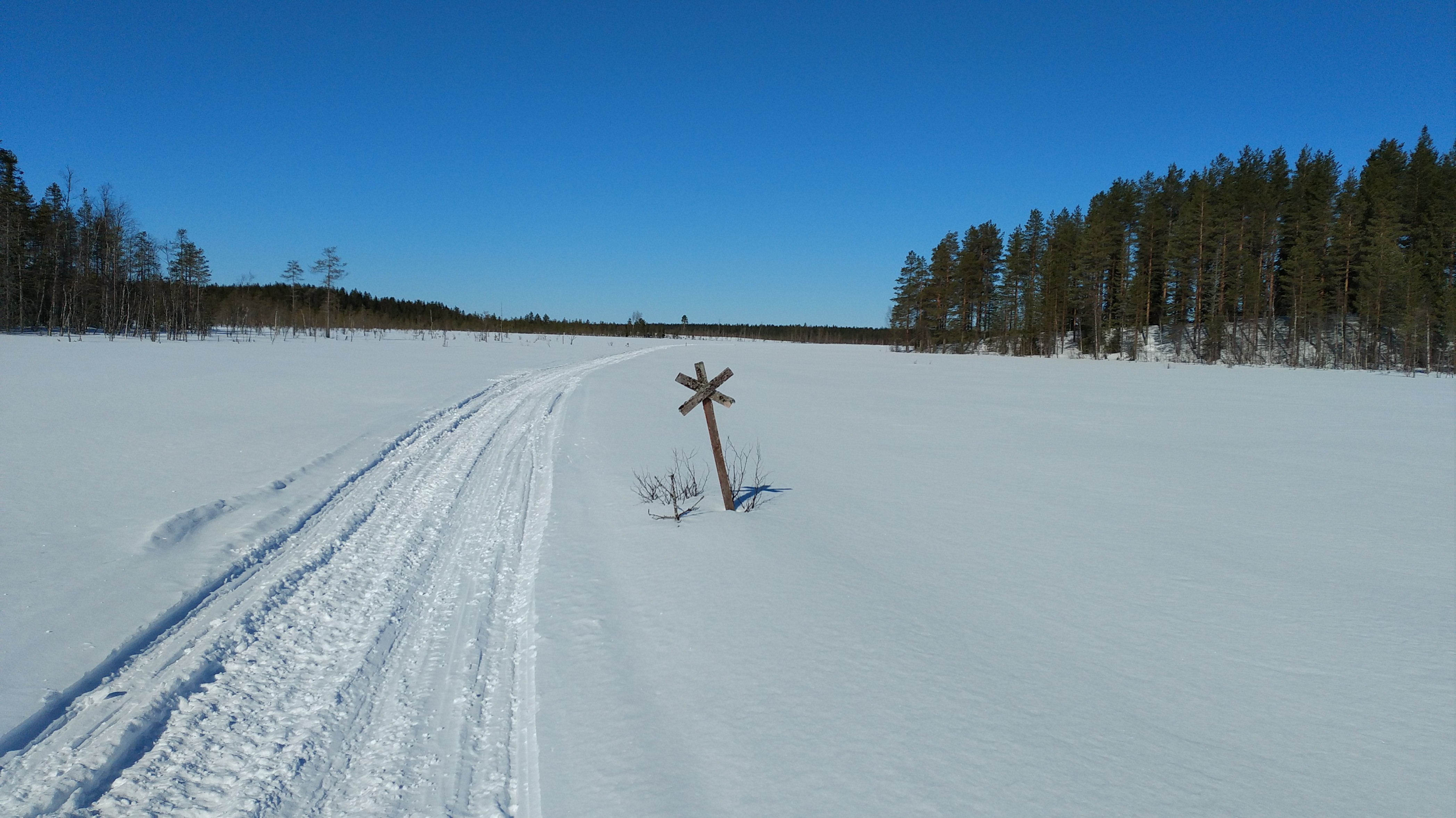 A snowmobile trail in Sanginkylä, Utajärvi, Finland.